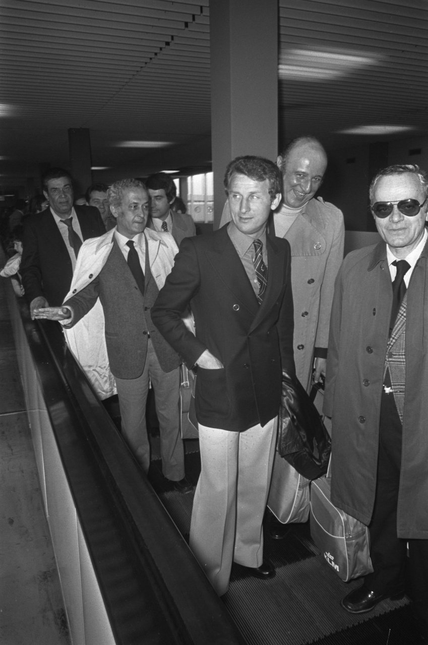 1973-74 UEFA Cup Winners' Cup final in Rotterdam, AC Milan (Italy) vs 1. Fußball-Club Magdeburg (East Germany). Head coach and former AC Milan's player Giovanni Trapattoni pictured at Schiphol Airport, Amsterdam.